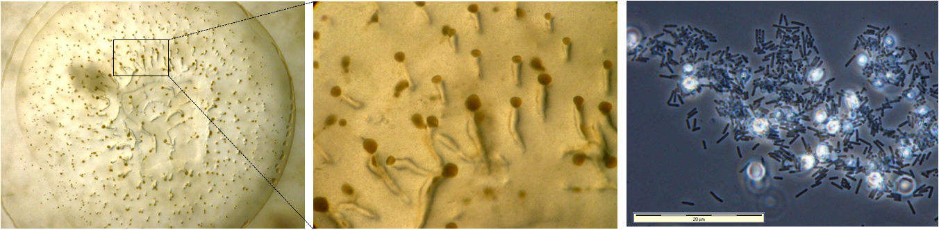 Rod shaped gram negative deltaproteobacteria Need NaCl to grow Show gliding motility and swarming on ASW VY1/4 Yellow-orange fruiting bodies